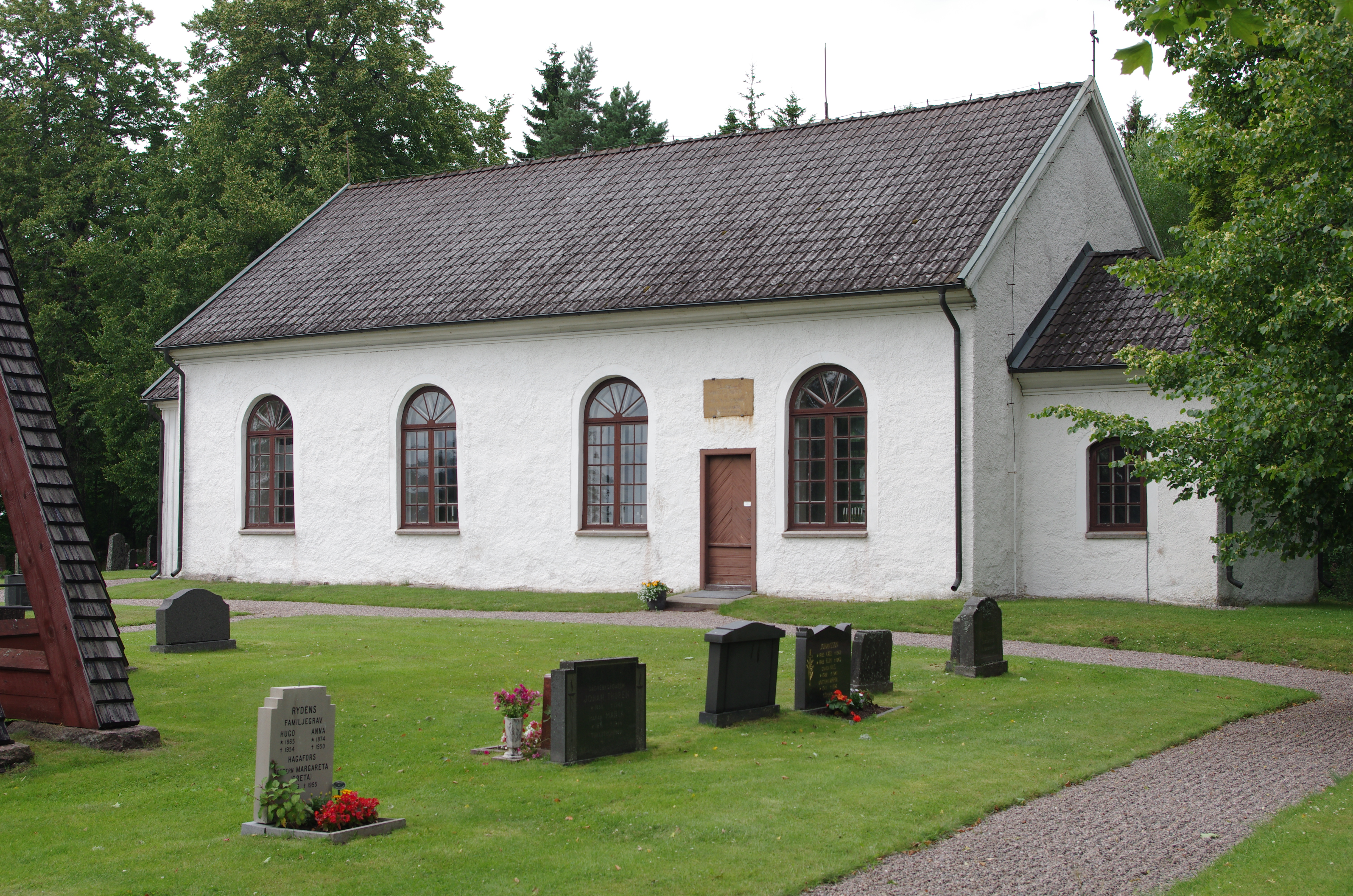 Utvängstorps kyrka (swedish: church of Utvängstorp), Västergötland, Sweden.